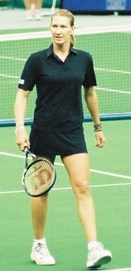 Steffi Graf plays an exhibition match with Kimiko Date at Nagoya Rainbow Hall in February 7, 2000. It was held as a part of her "Farewell World Tour".